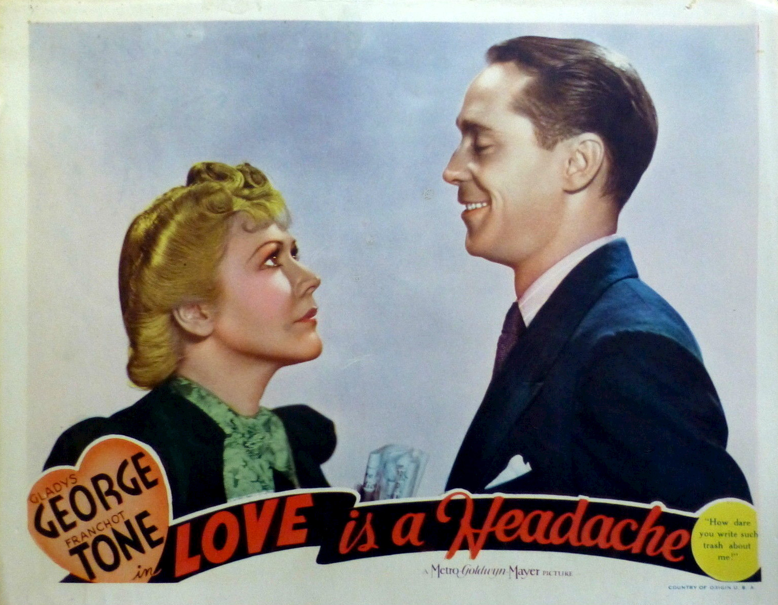 Lobby card for the 1938 film Love is a Headache.. The item has no copyright markings on it as can be seen in the links above. At bottom right is Country of origin USA.